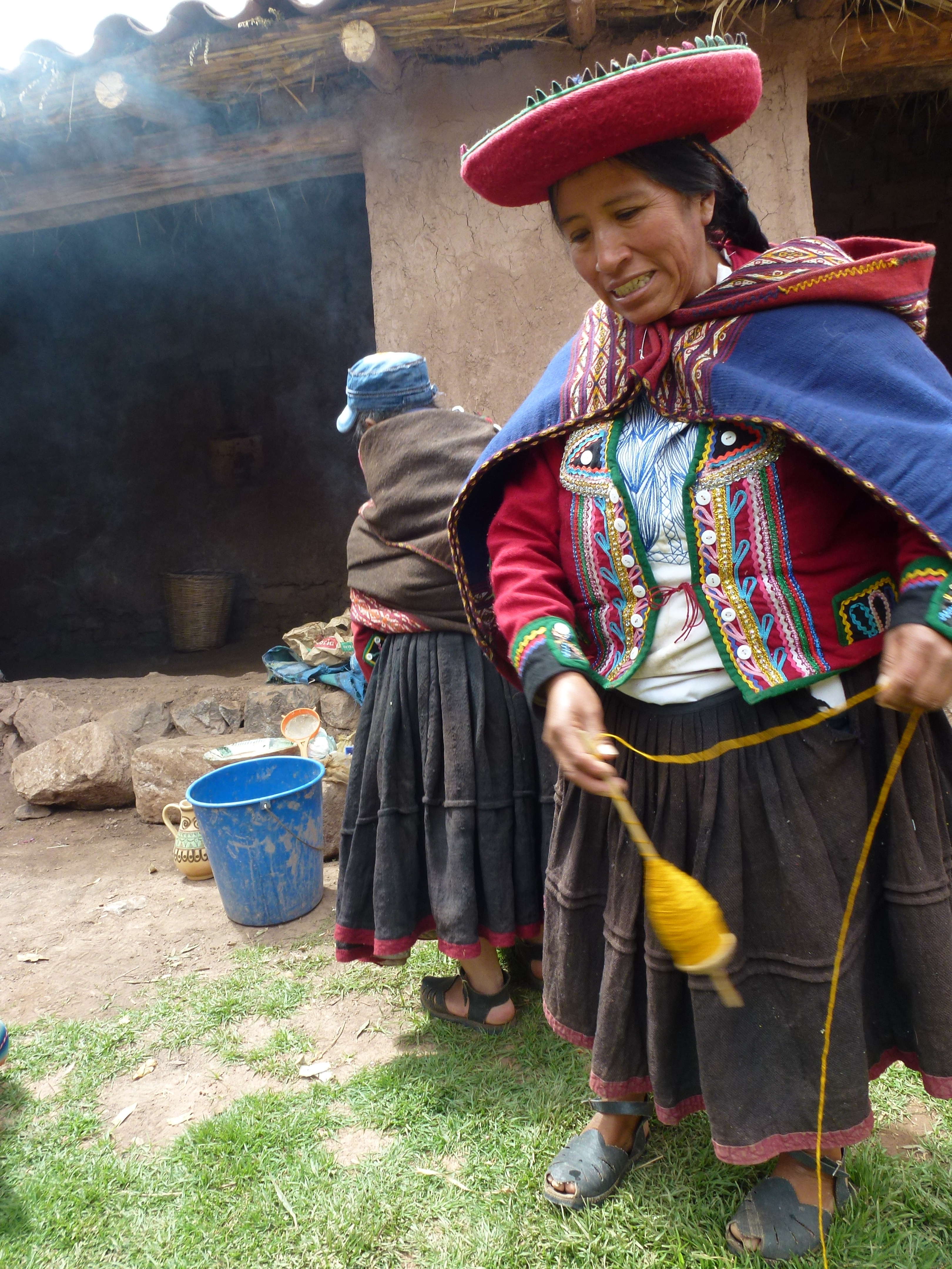 Woman with a drop spindle in Chinchero.- Peru